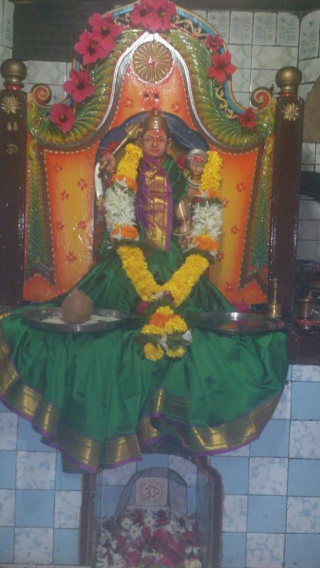 Aai